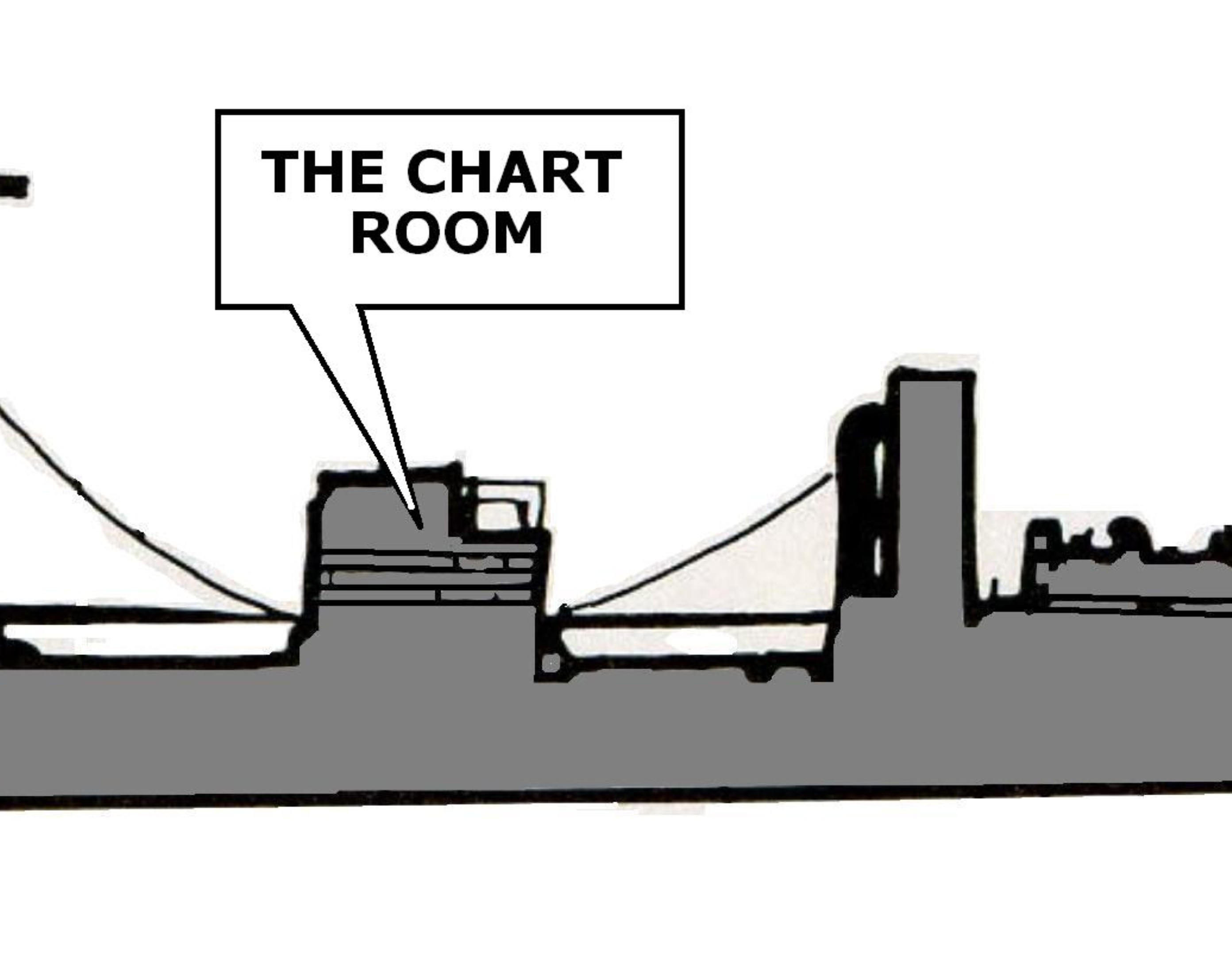 A Digital Image of the English Trader showing the position of the Chart Room ,created on Paintbrush by M Hobbs